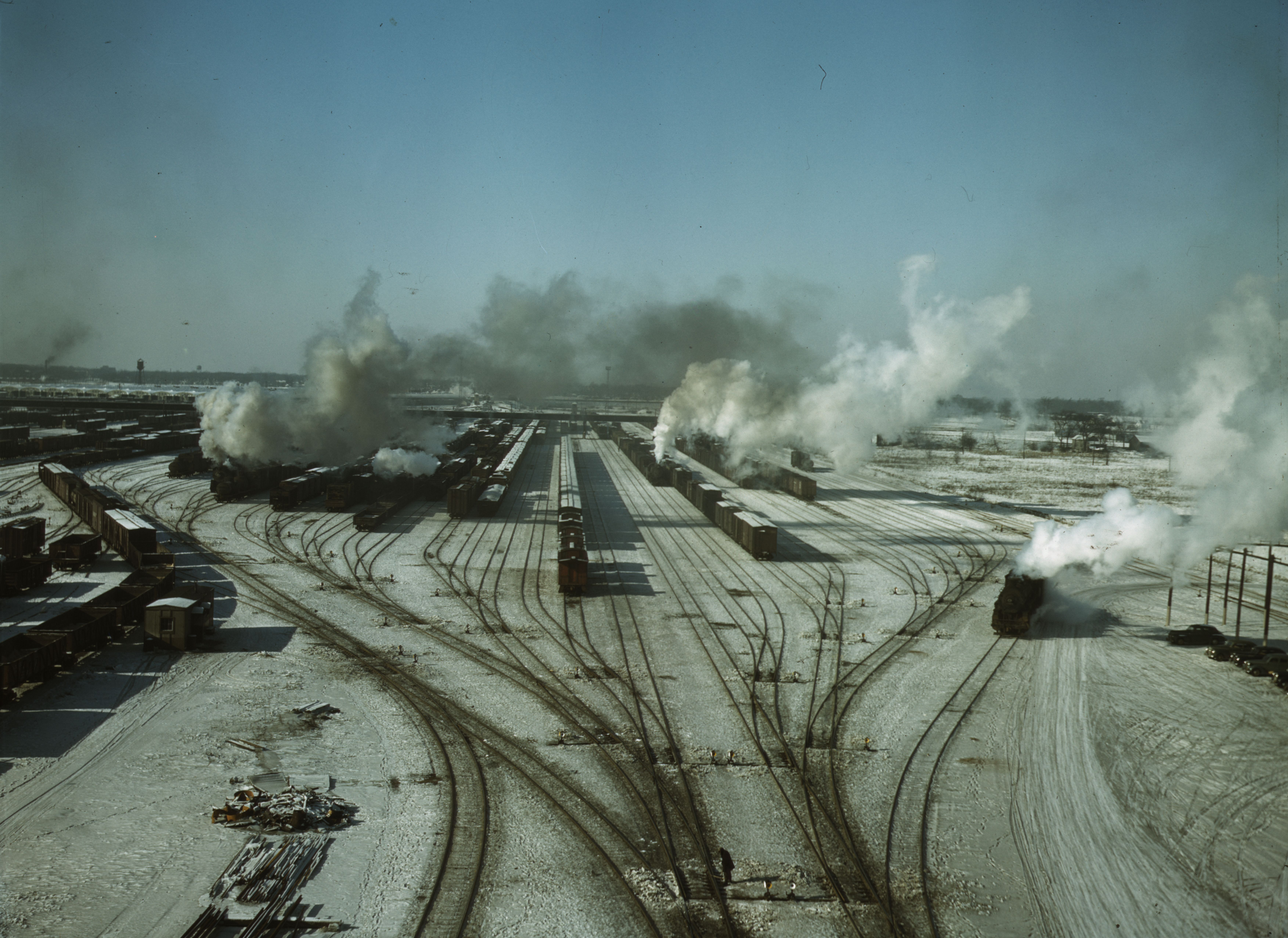 General view of Proviso Yard, one of the classification yards of the Chicago and Northwestern Railroad, Chicago, Illinois.